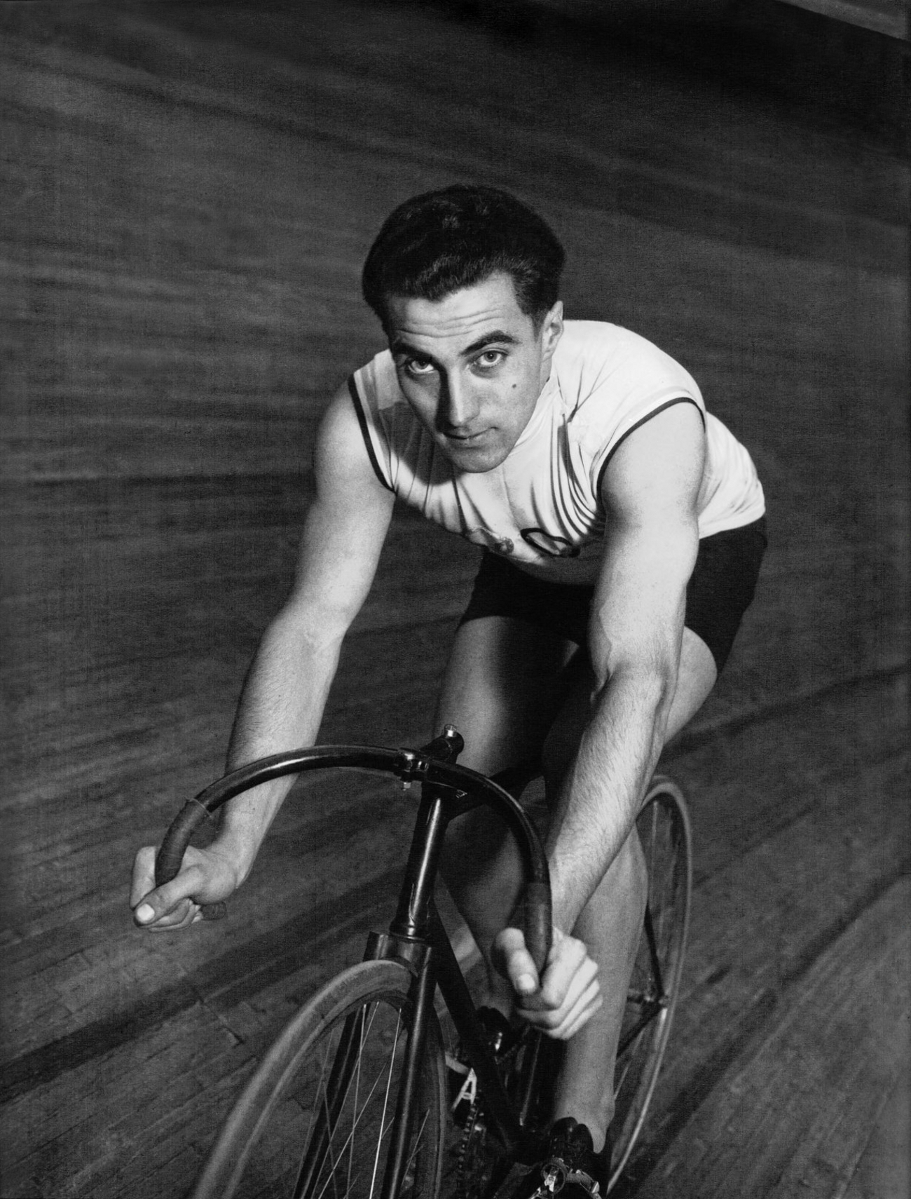 French racing cyclist Roger Beaufrand (1908 - 2007), winner of the gold medal on the kilometer sprint at the Amsterdam Olympic Games in 1928.(Cropped print.)